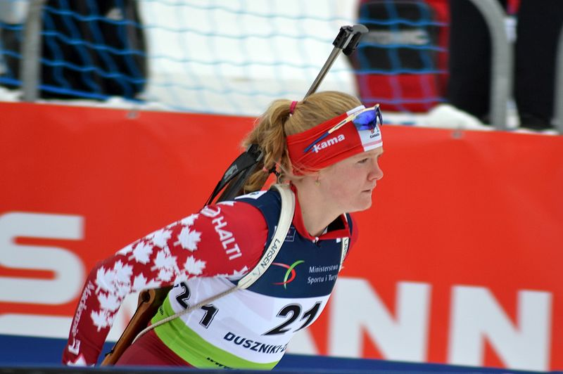 Open European Championships Biathlon 2017, Individual Women's race, held on January 25th.